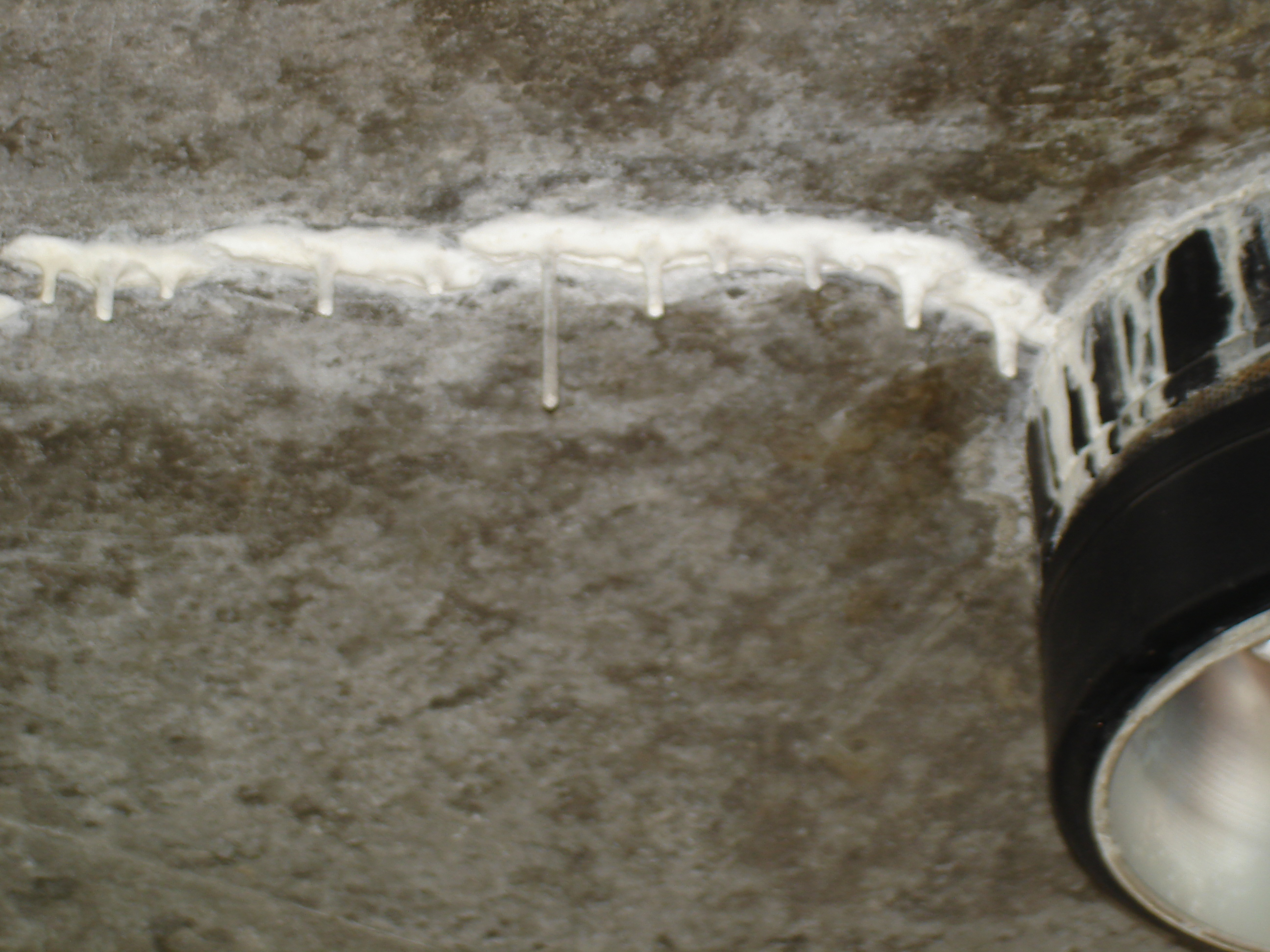 Stalactite in armed concrete Description: stalactite size: until 12 cm Local: Rio de Janeiro State University building Date:06-03-2006 Author:Eurico Zimbres Free for all use